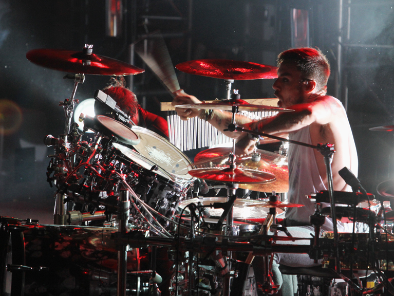 Thirty Seconds to Mars live at the Memorial Athletic and Convocation Center in Kent, OH, on October 8, 2010.